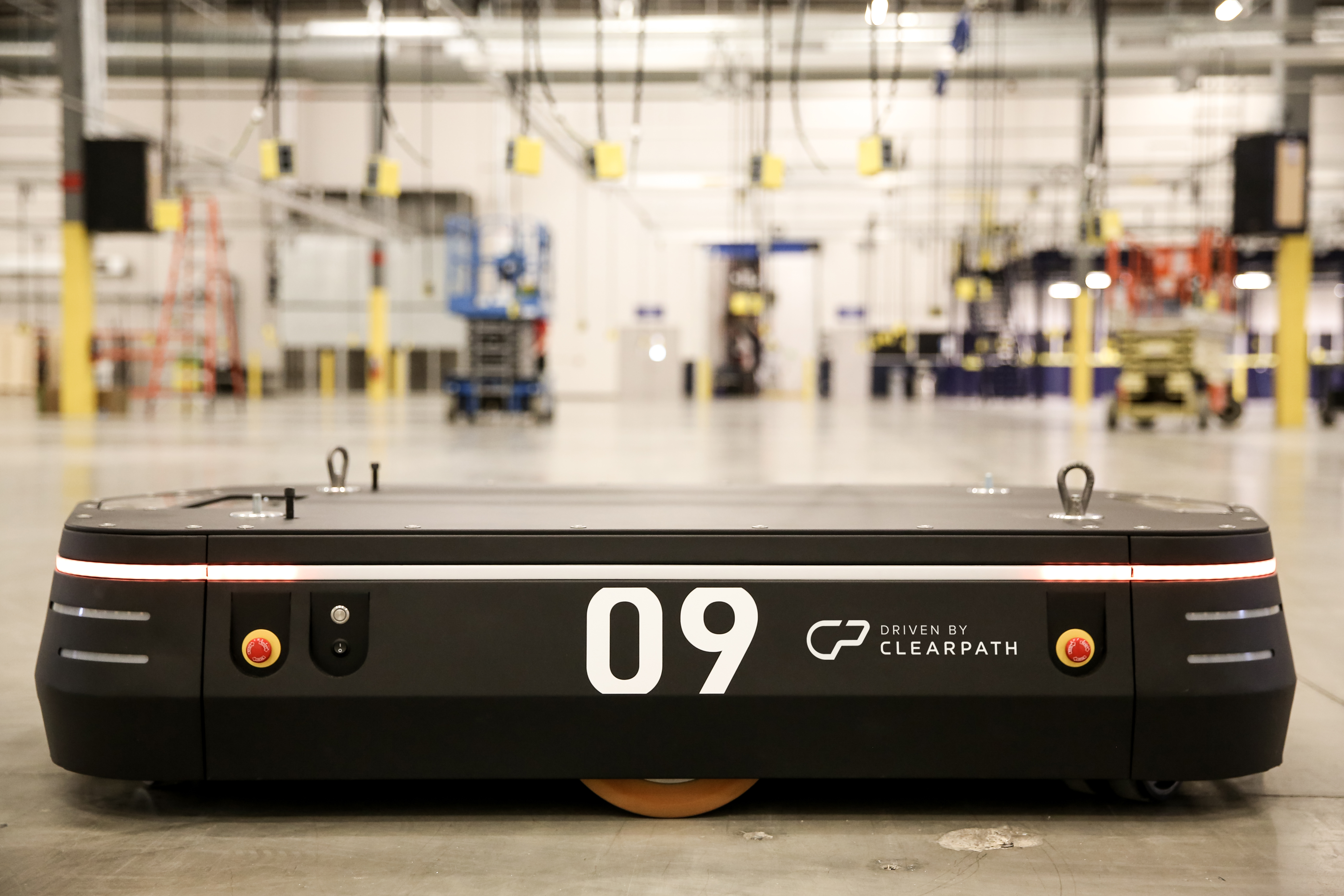 OTTO 1500 self-driving vehicle (SDV) for heavy-load material transport in warehouses, distribution centers and factories.